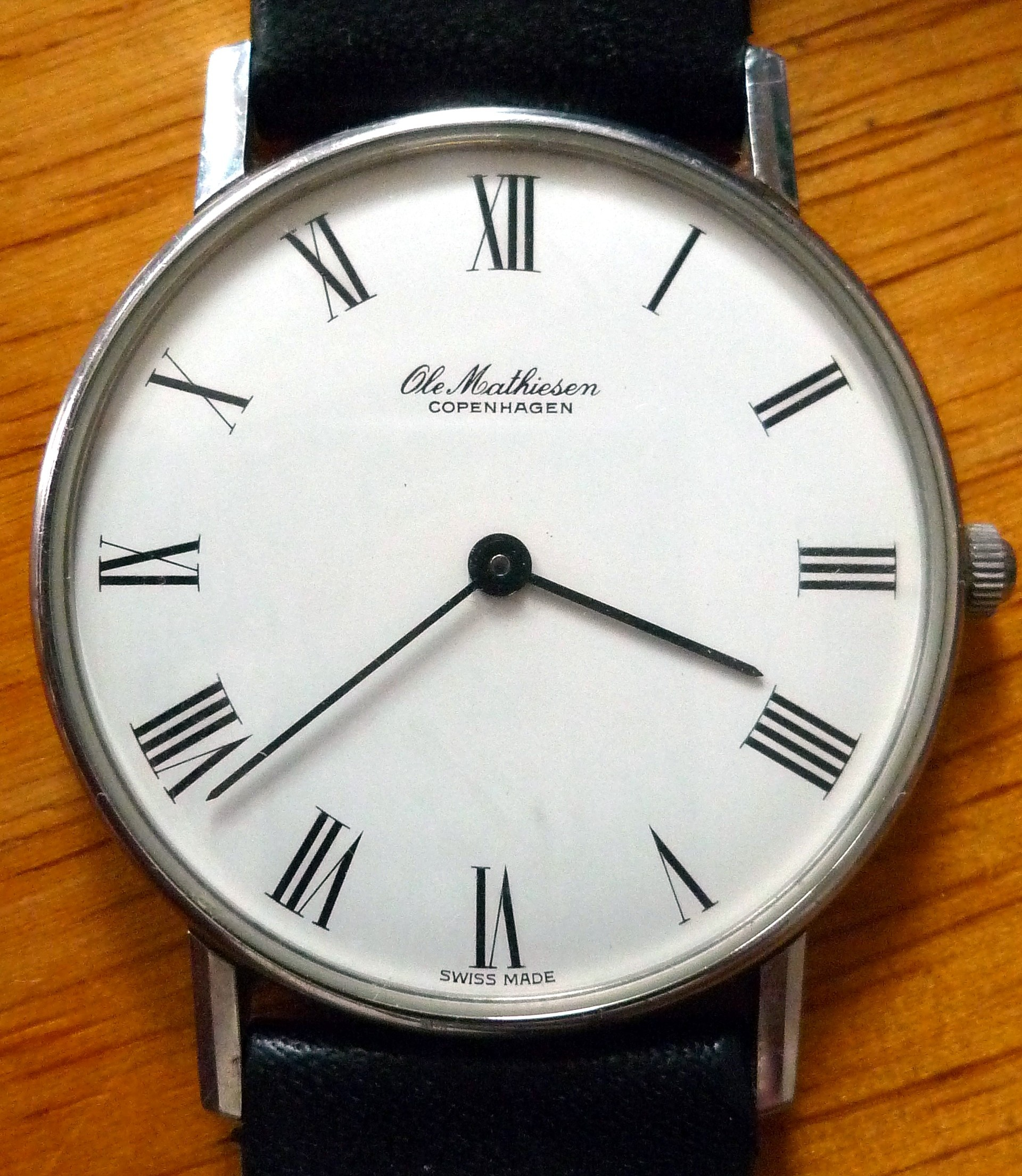 Wristwatch "OM1 roman", manufactured by Ole Mathiesen, Copenhagen. Swiss quartz-clockwork ETA 956 032. Represented in the design-collection of the Museum of Modern Art (MoMA), New York, since 1980.